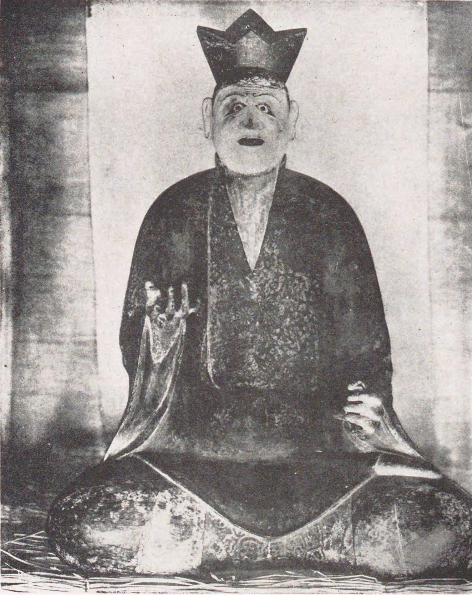 A wooden statue of shinra myojin made in Heian period at Mii-dera temple, Otsu, Shiga prefecture. A national treasure o Japan.